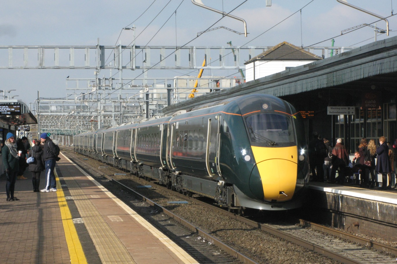 A Great Western Railway service from Swansea to London arrives at Didcot Parkway. It is formed by five-car units 800017 and 800016.